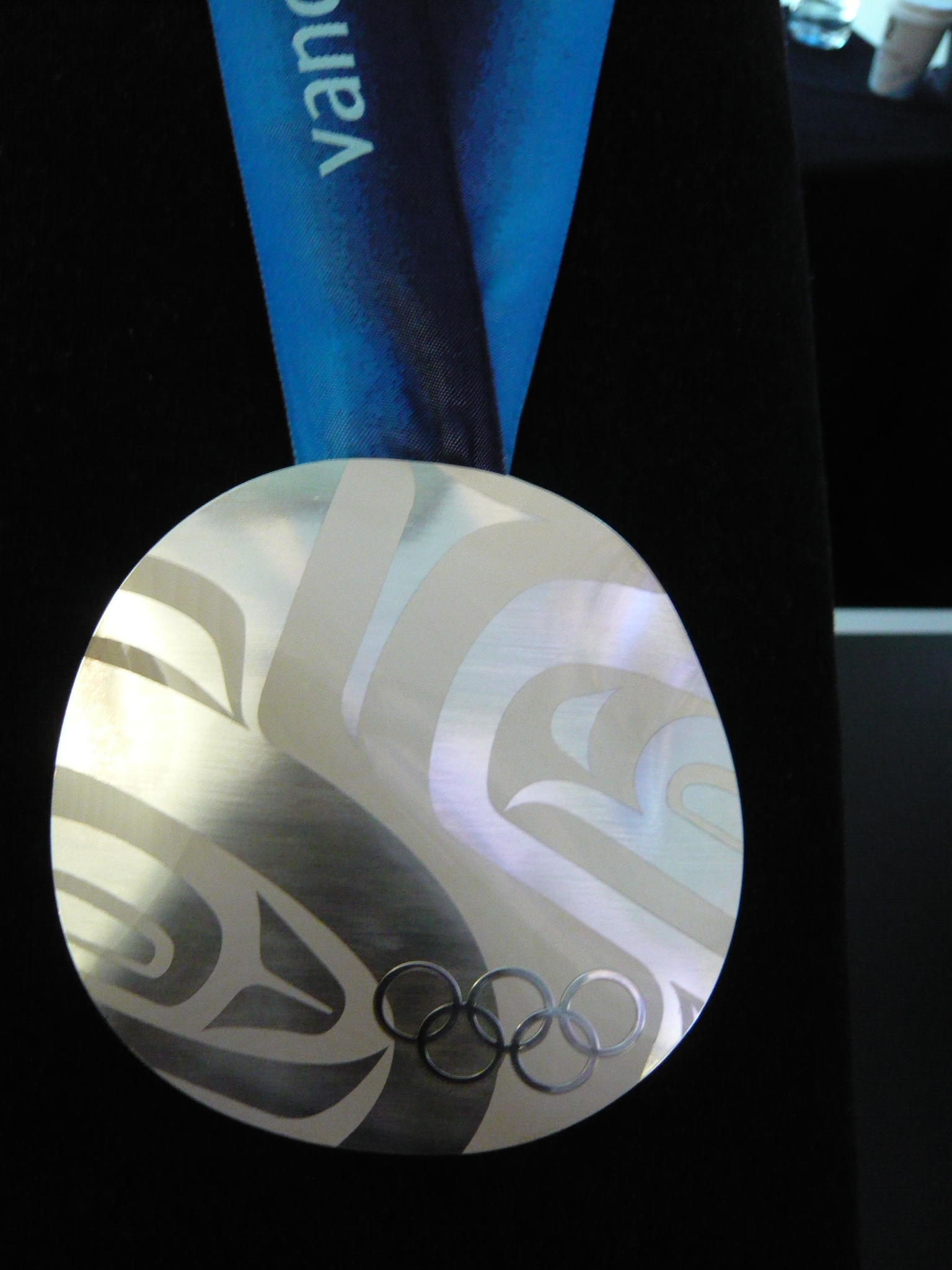 Silver Medal of Vancouver